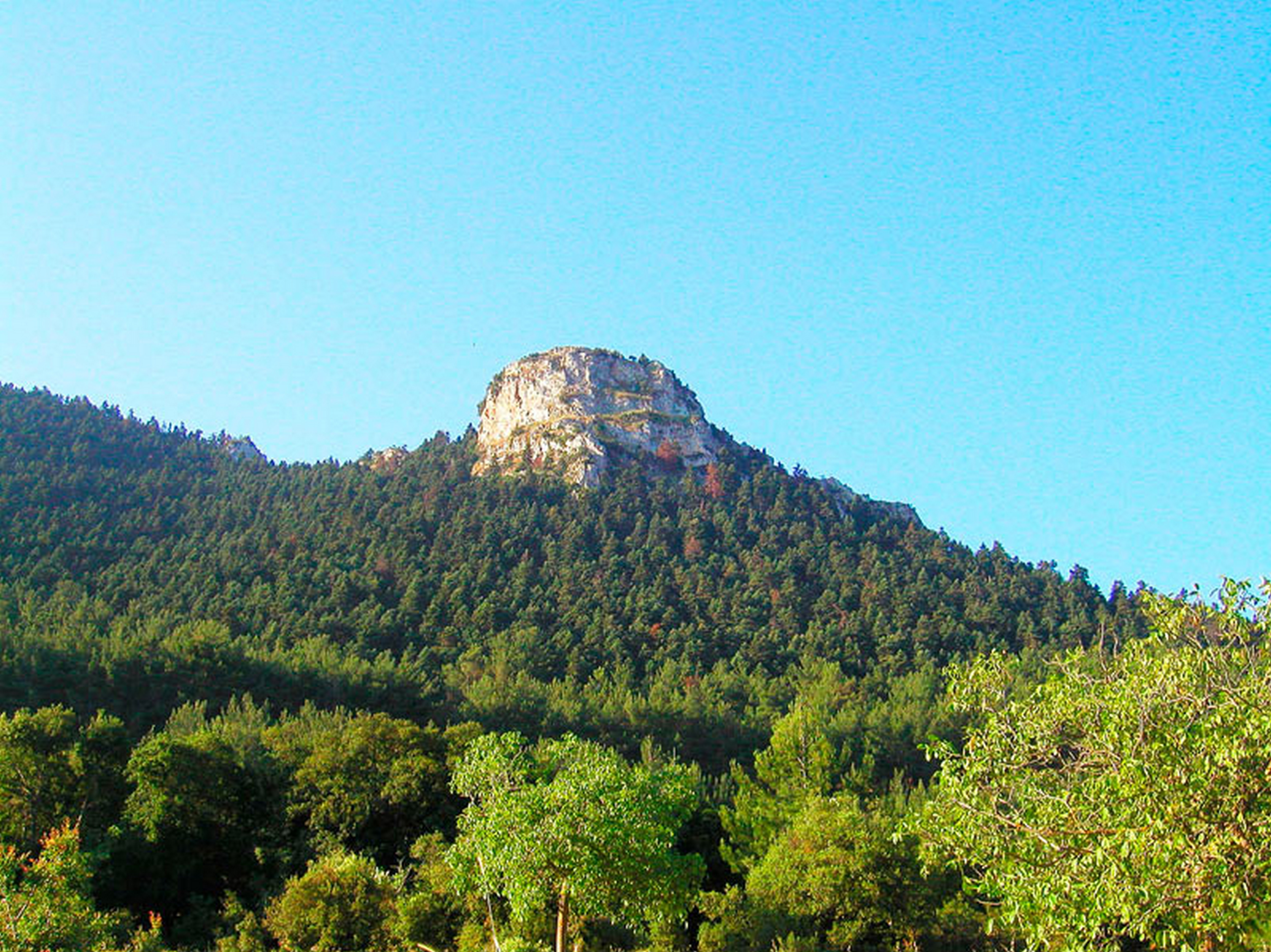 Bezenikos Castle